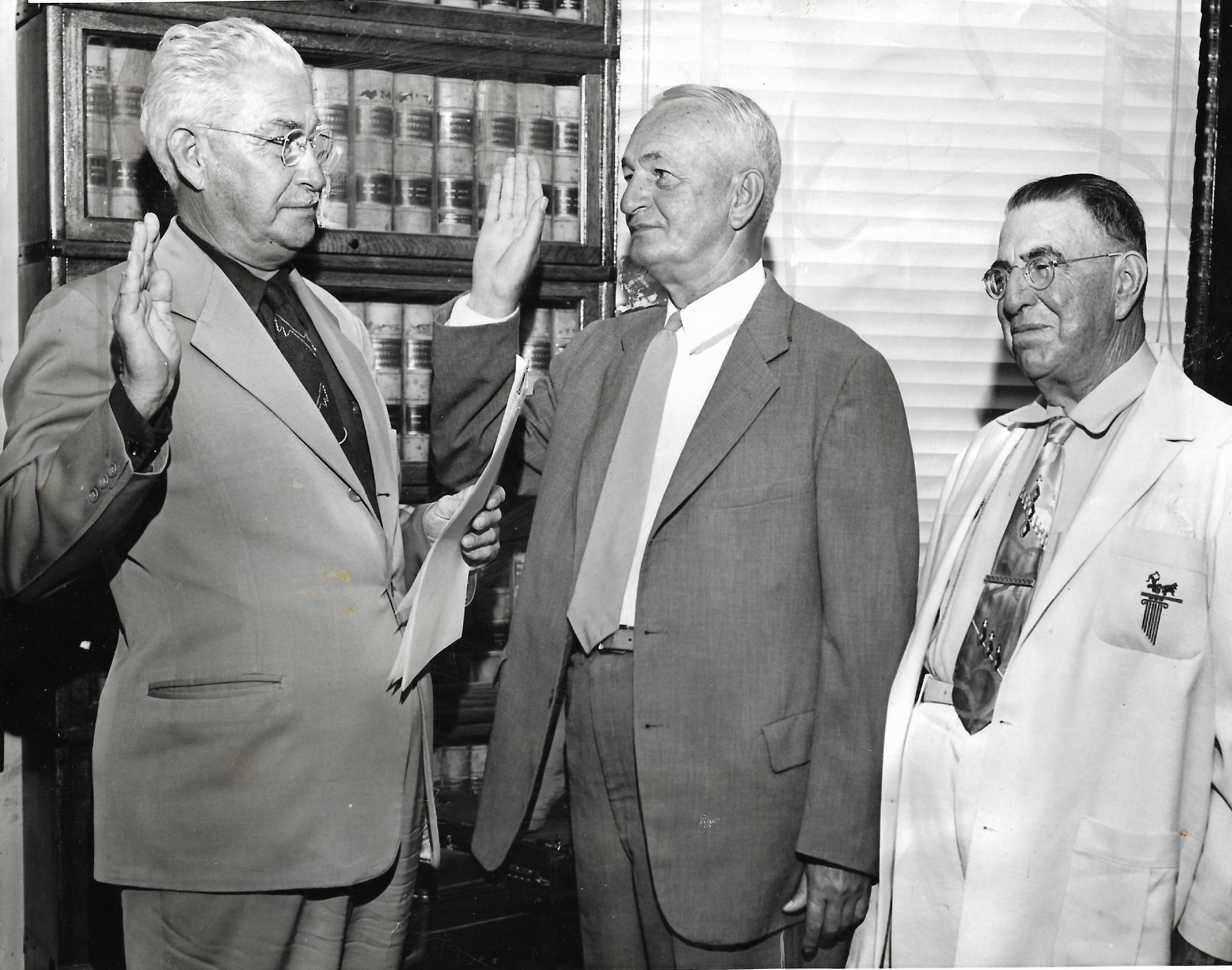 Olin Merrill Jeffords (center) was a Vermont attorney and judge. He served as Chief Justice of the Vermont Supreme Court from 1955 to 1958. He took the oath of office from Florida judge Flem C. Dame (left) while on vacation. Retired Vermont Associate Justice Allen R. Sturtevant (right) served as a witness.